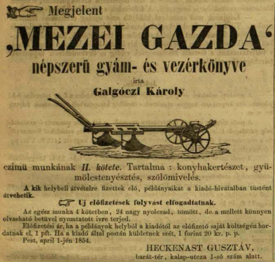 Advertisement (Galgóczy Károly's work)